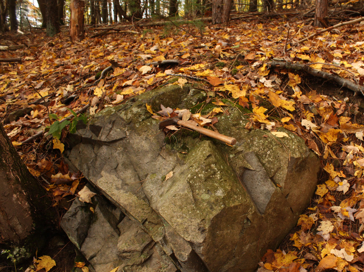 Outcrop of phonolite at the Beemerville Complex in northern New Jersey. Rock hammer for scale.